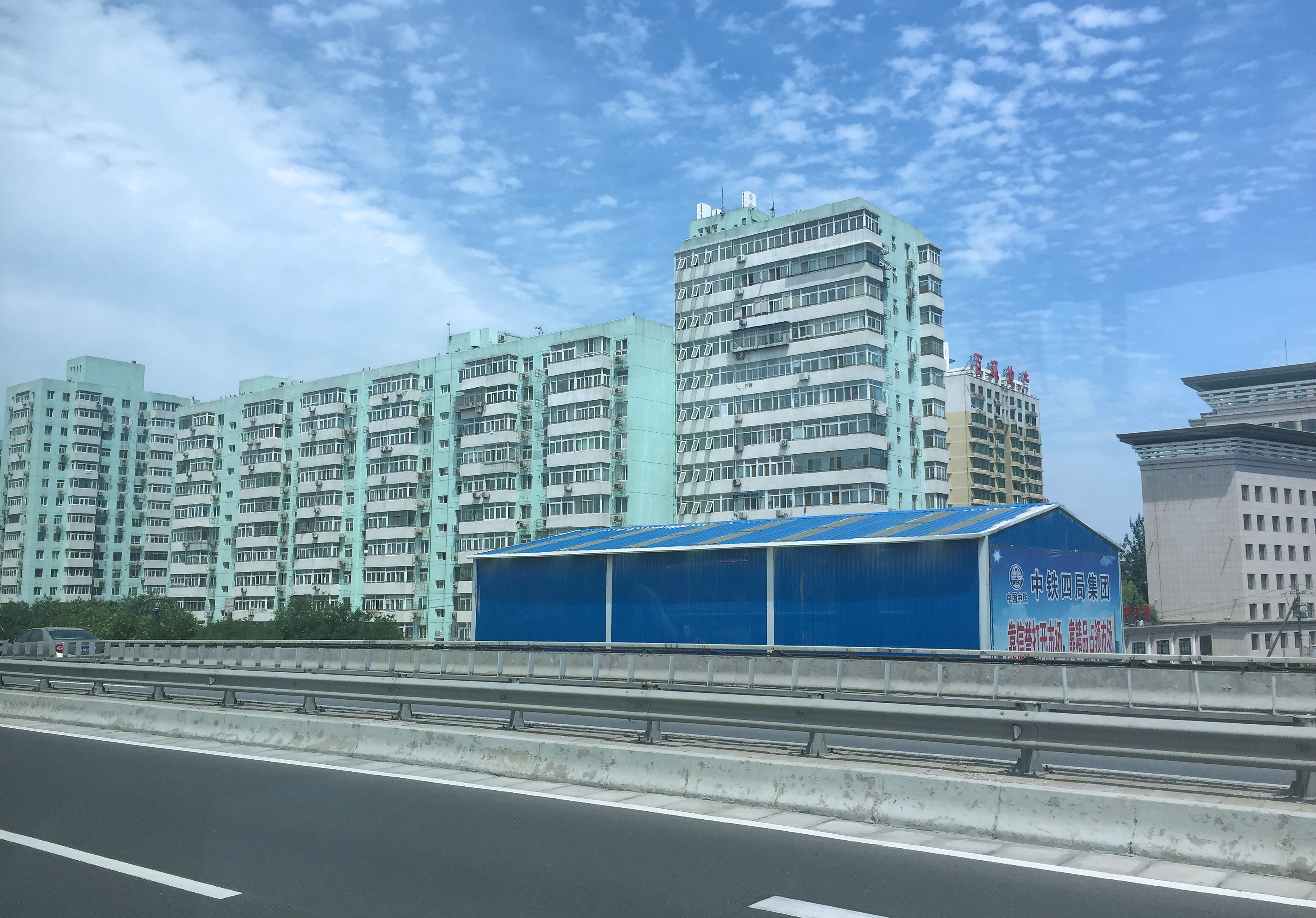 The No.10 building of Furongli has been a mystery for a long time in my childhood - it has a blocked door on the southwest. Now Line 16 is in construction, so will that door re-open for metro?